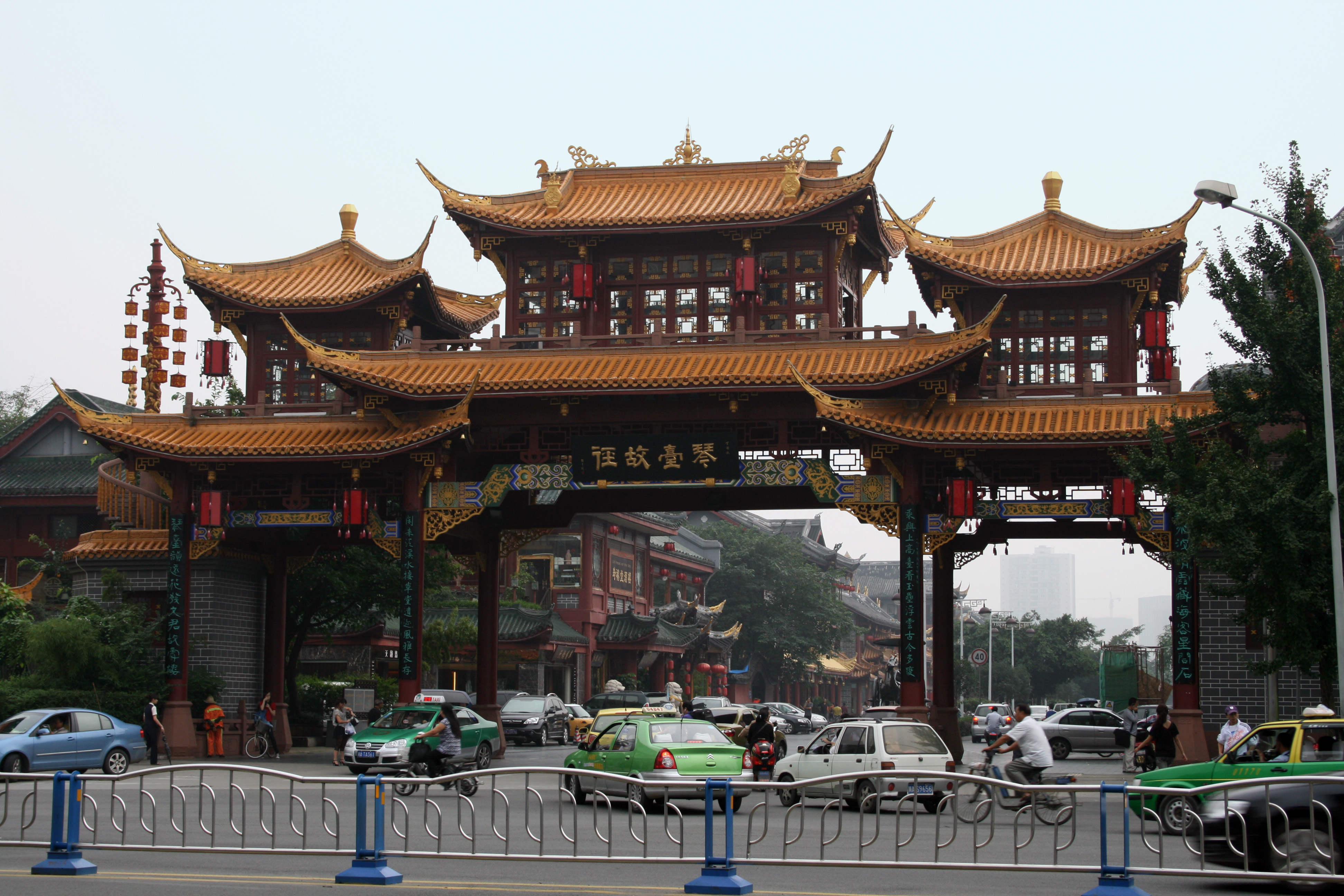 The north gate of Qintai Road, Chengdu